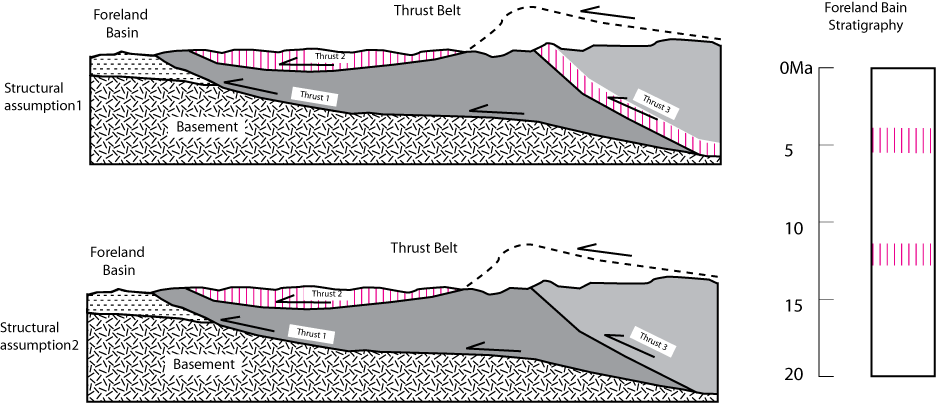 This image shows how structural assumption could affect the provenance interpretation of detrital record